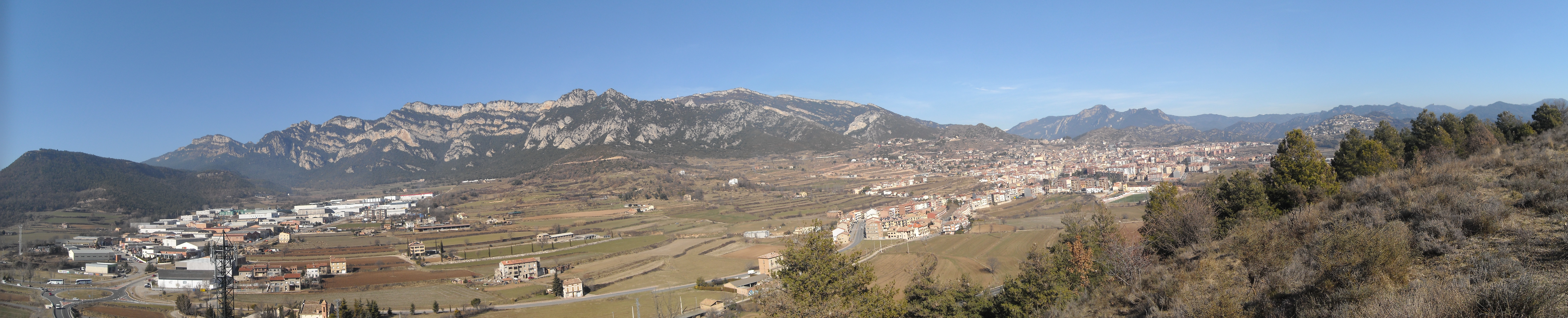 Panorama of Berga (Berguedà, Catalonia, Spain) and the Queralt Range, seen from the Noet Range. Produced using 14 photographs joined up using Hugin.